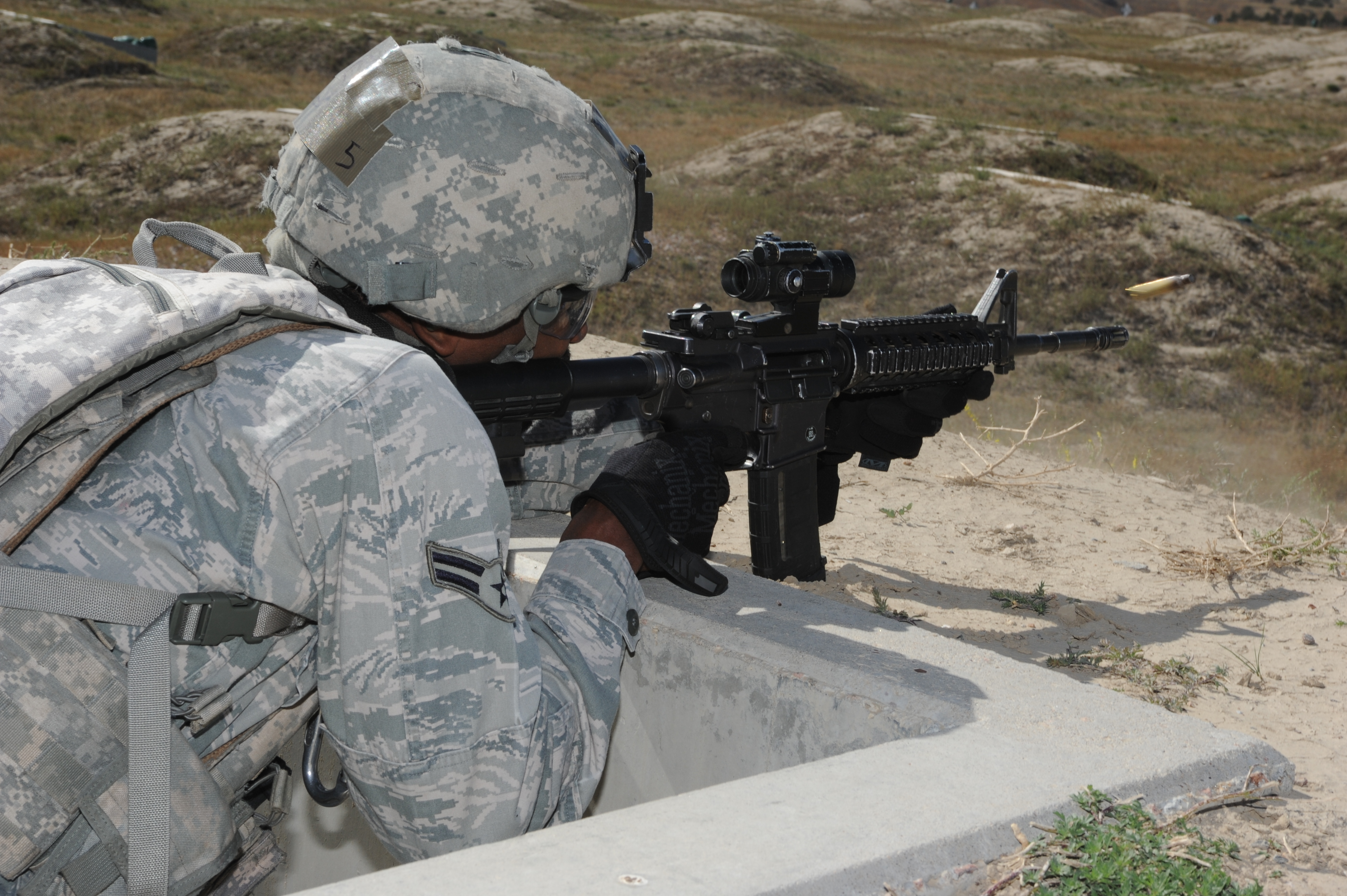 Airman 1st Class Michael Clayton, 5th Security Forces Squadron Global Strike Challenge team member, fires his M4 rifle at pop-up targets during the shooting portion of the competition at Camp Guernsey, Wyo., Sept. 23, 2014. During firing, Clayton and his teammates set their sights on shooting ranges for the M4 carbine, M9 pistol, M203 grenade launcher and M240 machine gun. (U.S. Air Force photo/Senior Airman Stephanie Morris)